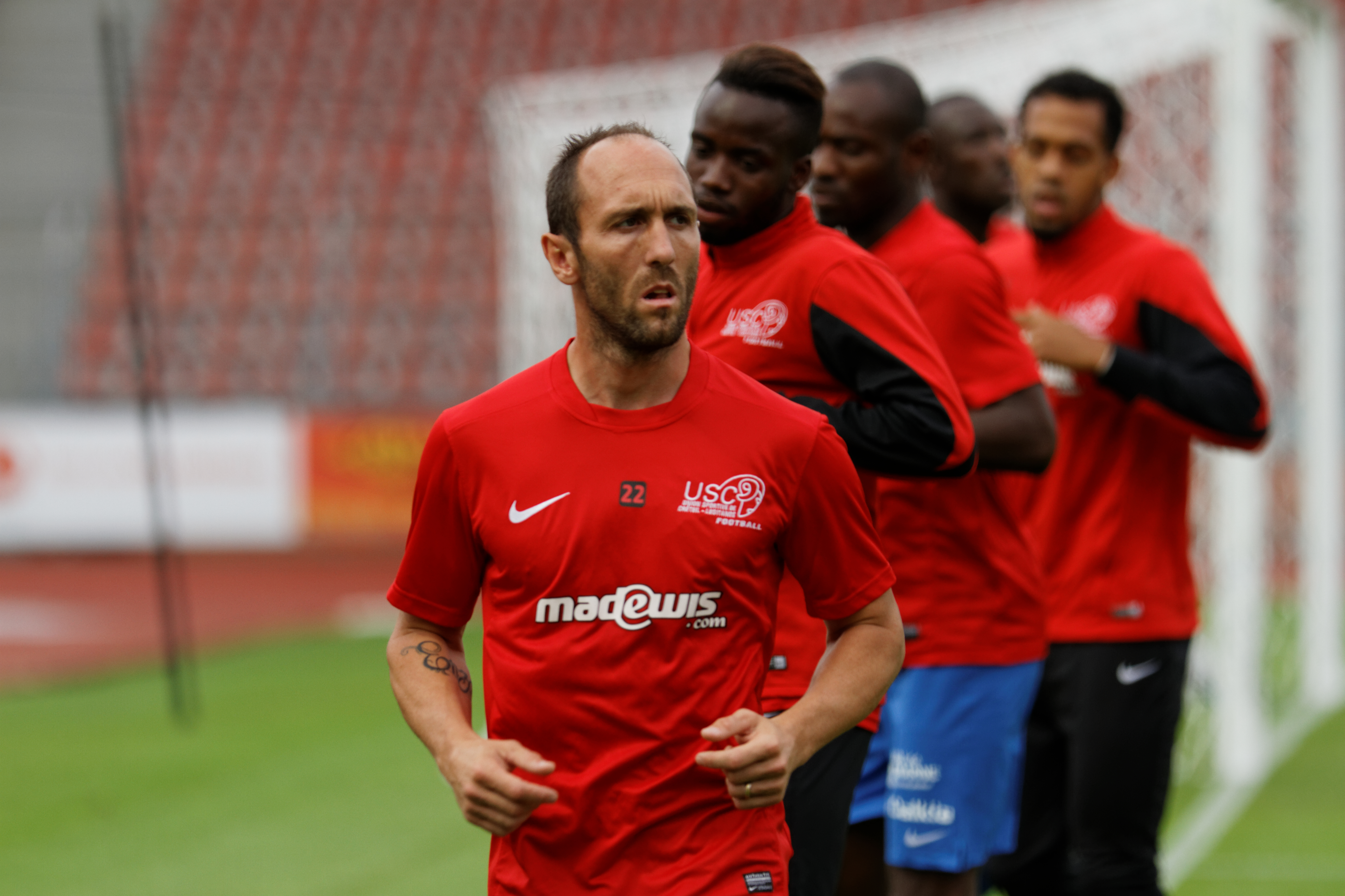 Créteil vs Châteauroux, 8th August 2014.